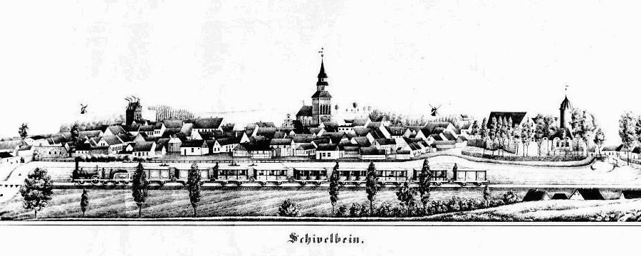 View of Schivelbein, 19th century